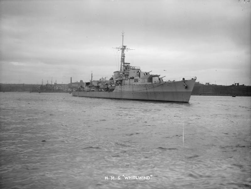 British destroyer HMS Whirlwind underway, near some docks.